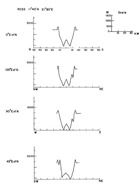 Ross crater cross section